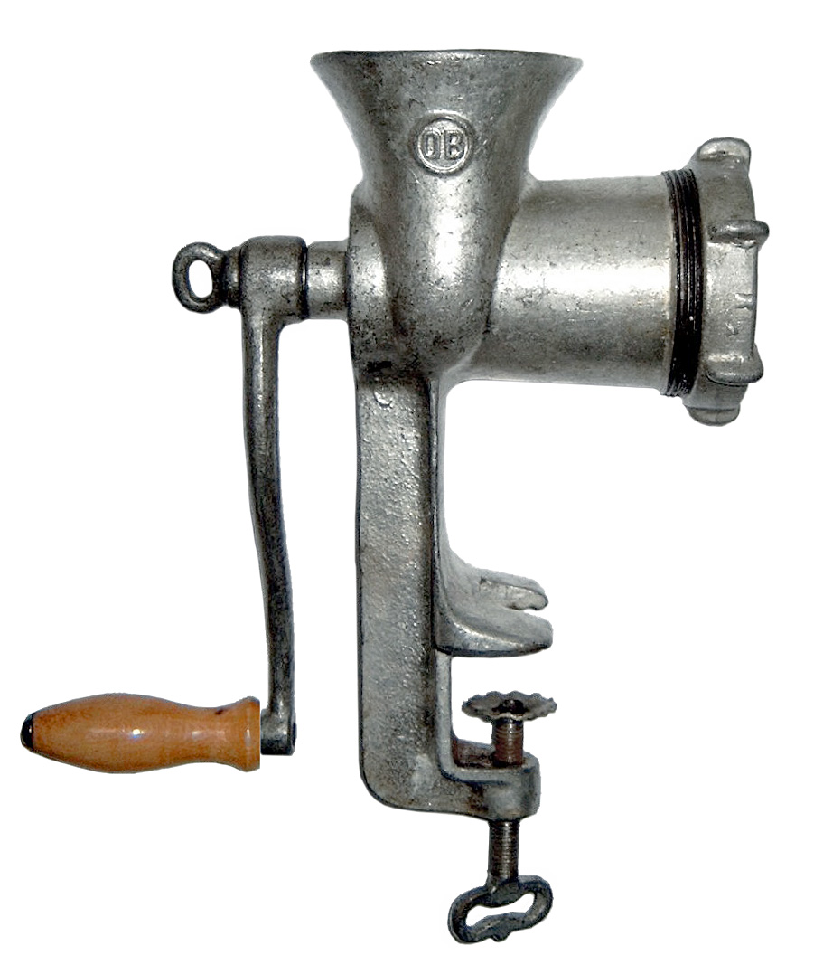 Old mincer (Fleischwolf) for Sausage. Photo taken by user:Kku. Modified by user:Rainer Zenz